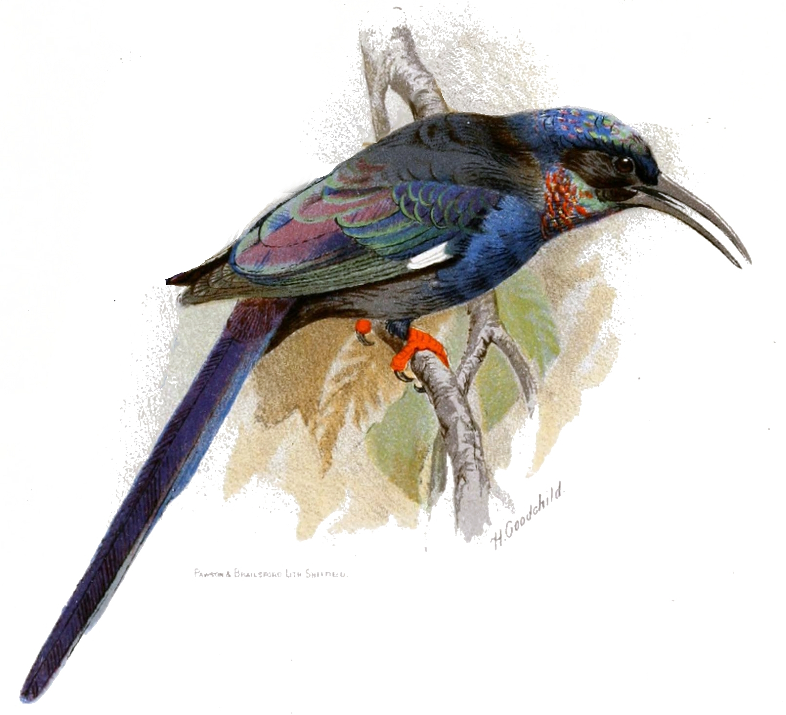 Irrisor somaliensis = Phoeniculus somaliensis now